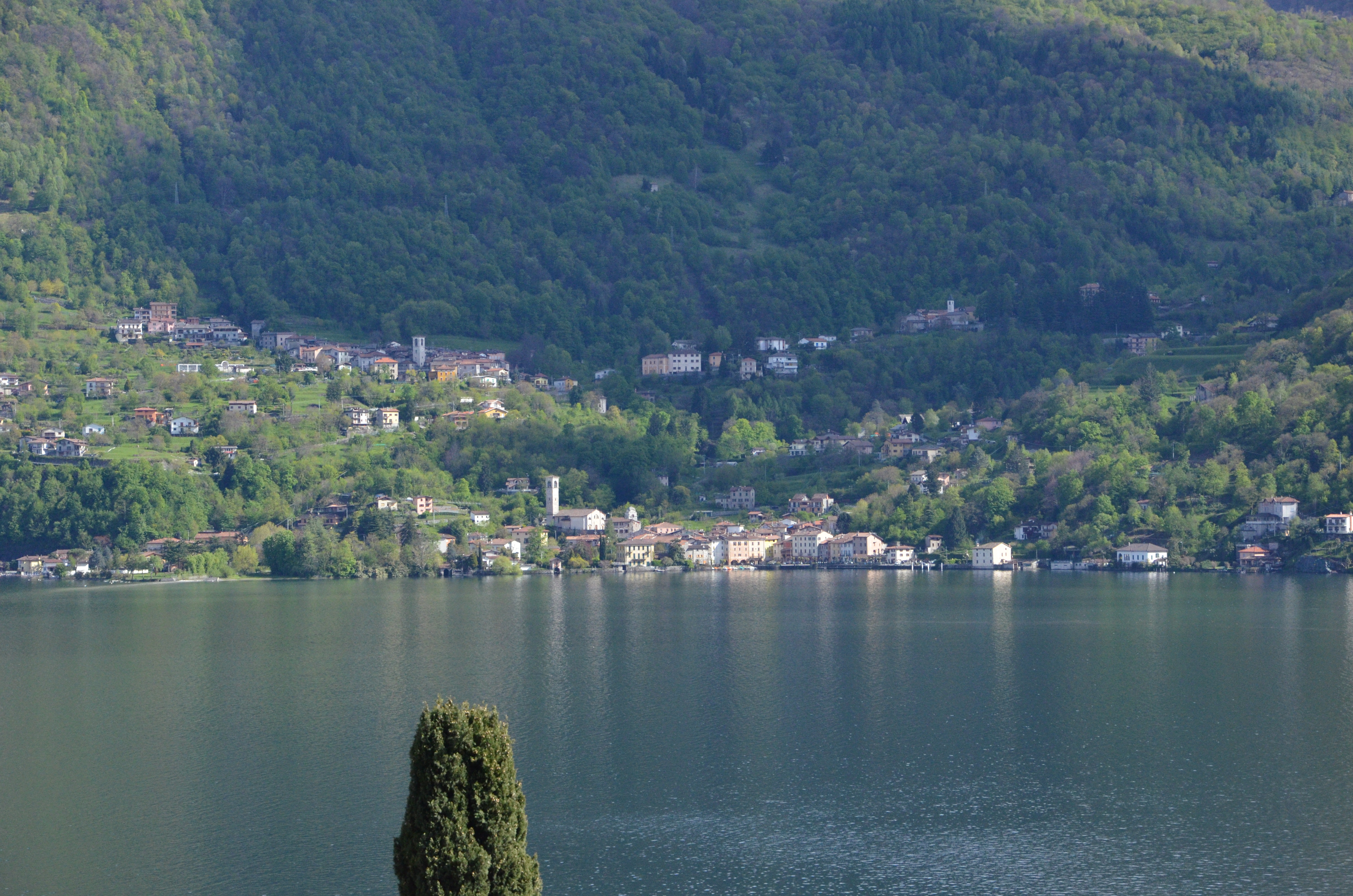 Osteno (Como)